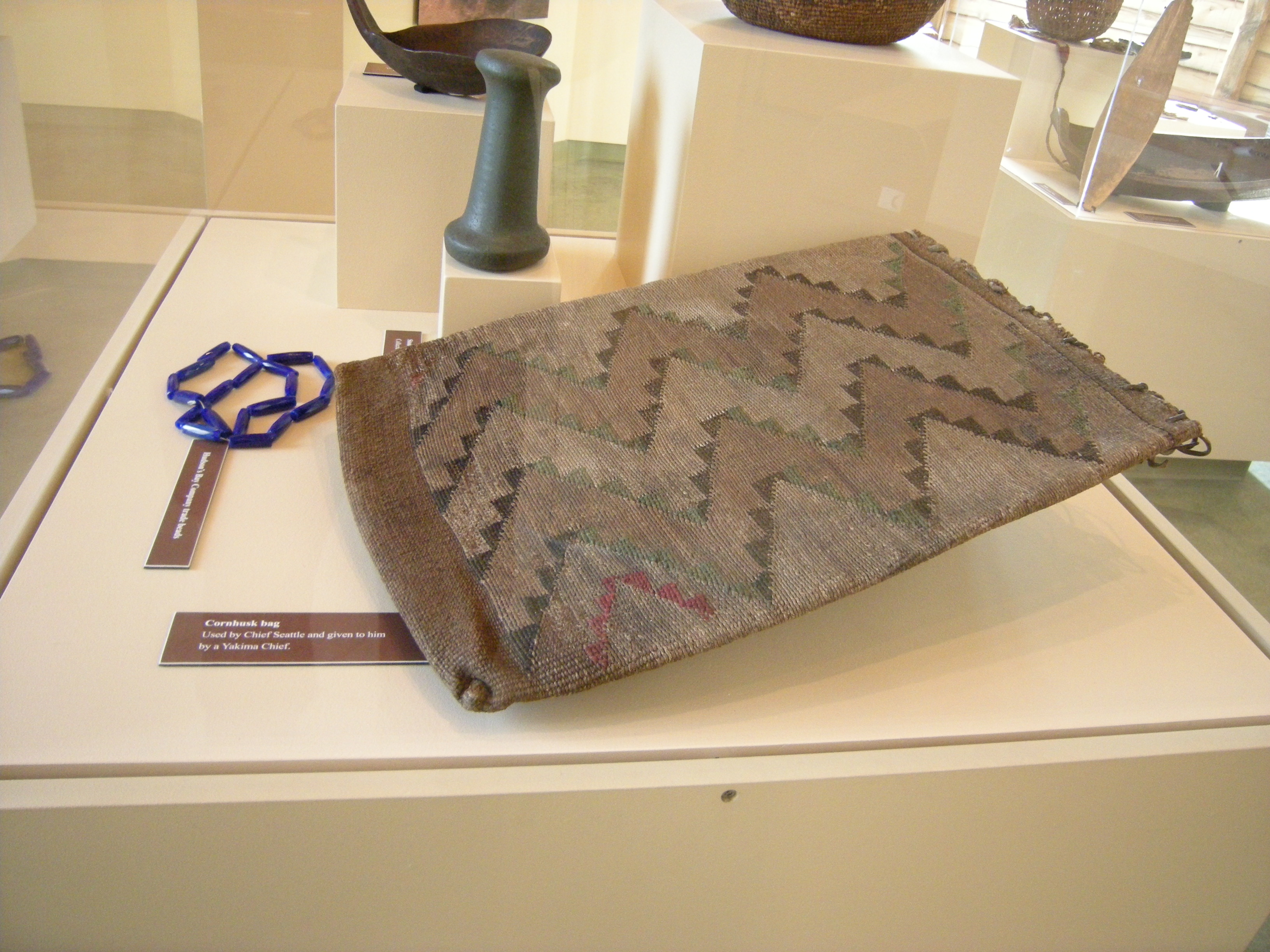 Cornhusk bag and other artifacts, Duwamish Longhouse and Cultural Center, Seattle, Washington. This bag was owned by Chief Seattle, and was given to him by a Yakima/Yakama chief.